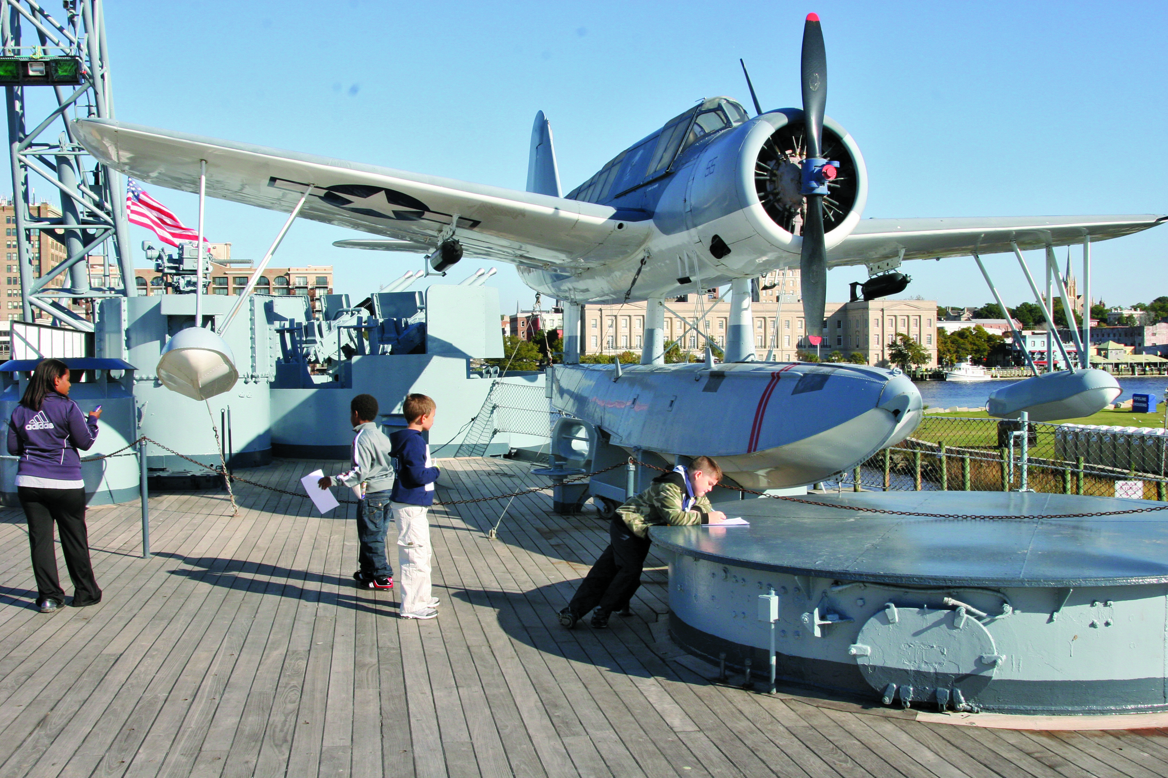 A Vought OS2U Kingfisher aboard the battleship USS North Carolina (BB-55) at Wilmington, North Carolina (USA).